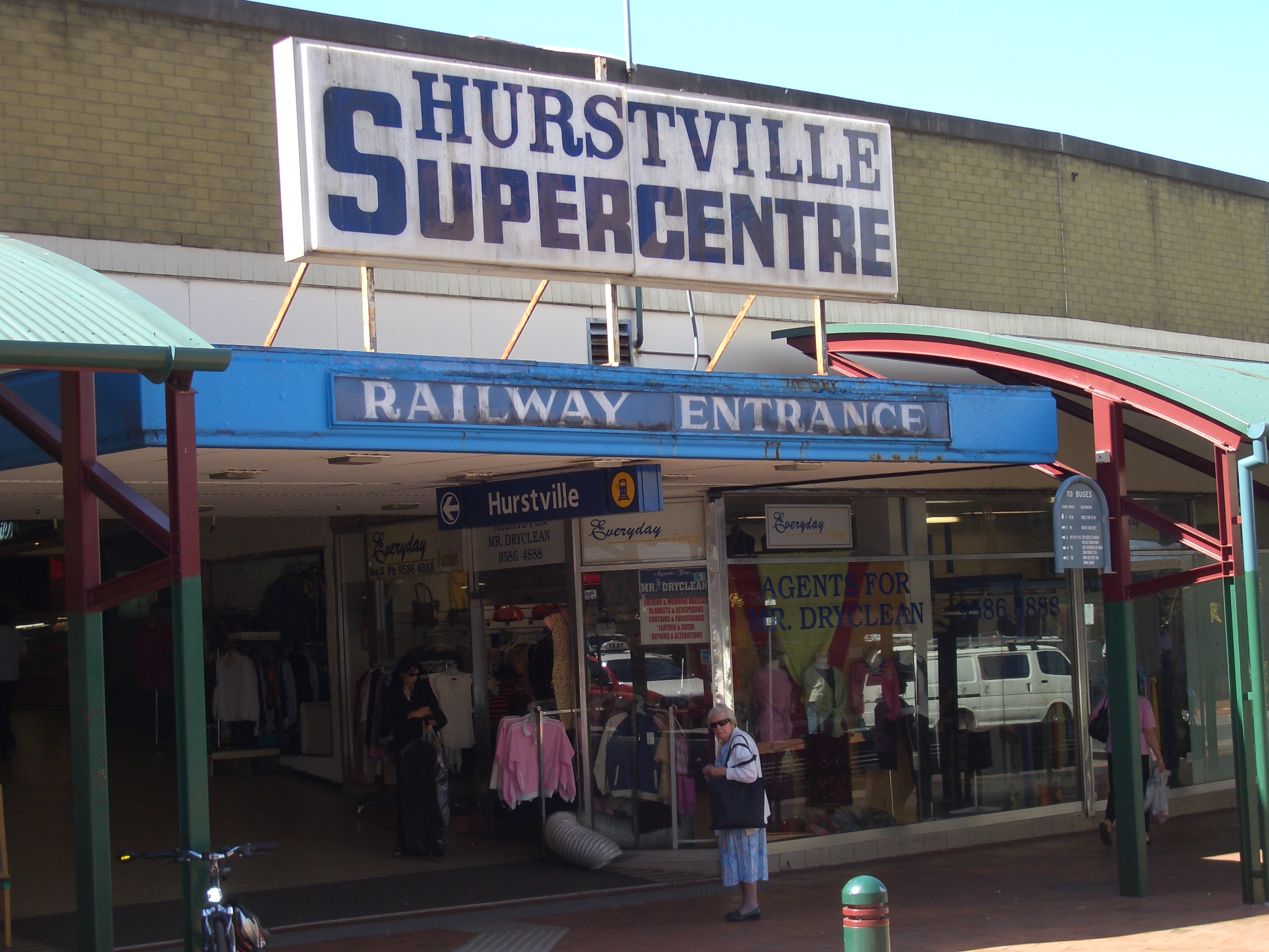 Hurstville Railway Station, Sydney